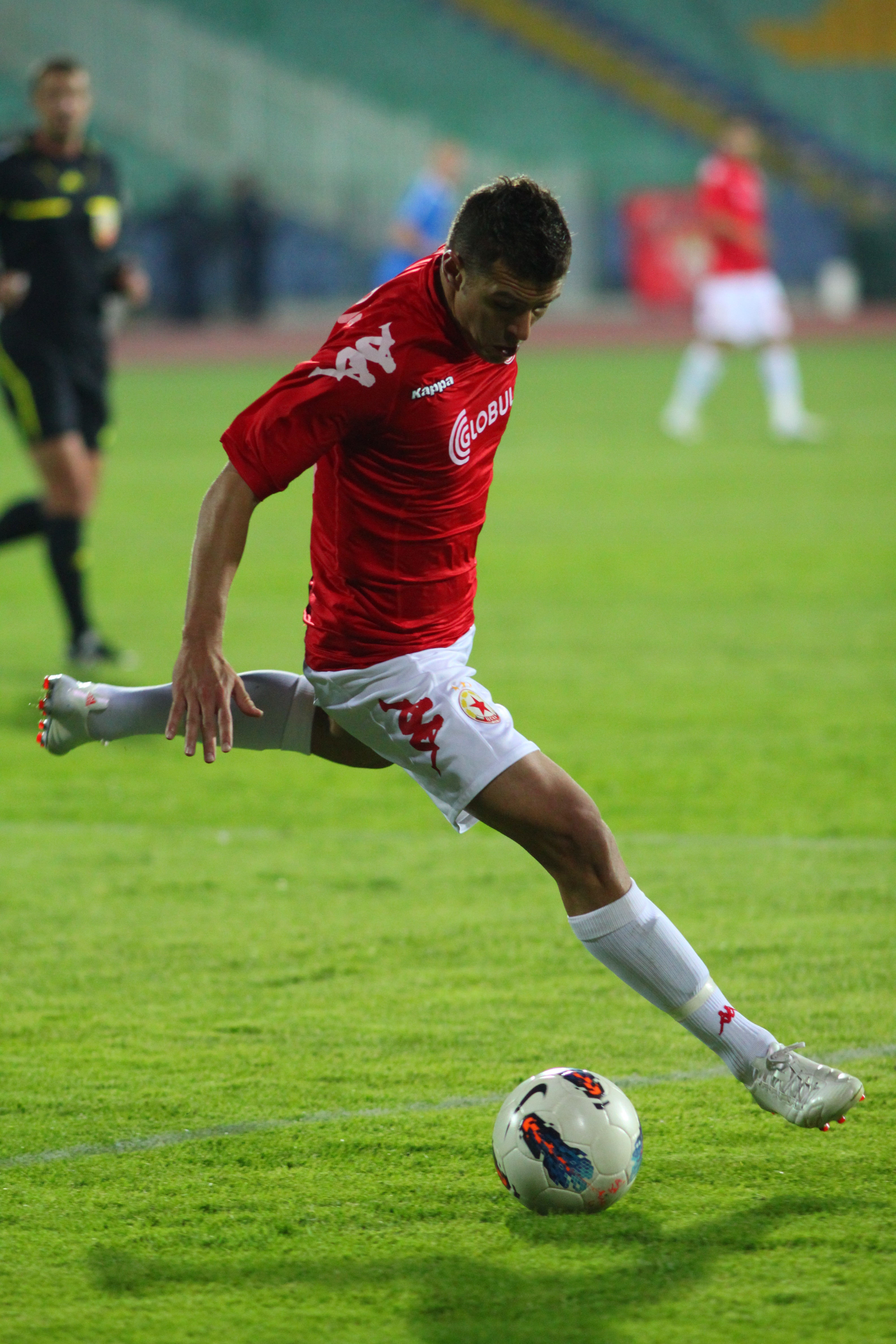 Aluísio Chaves Ribeiro Moraes Júnior, commonly known as Júnior Moraes, Ribeiro Moraes or simply Moraes (born April 4, 1987)[1] is a Brazilian striker who currently plays for CSKA Sofia.